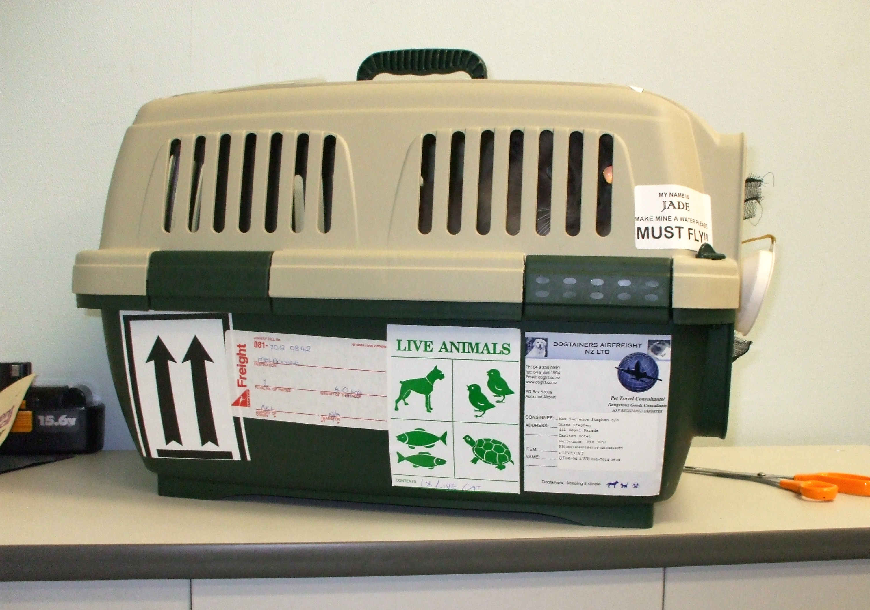 Dogtainers Pet Transport Clipper Cage Travel Crate Labelled correctly for international flight